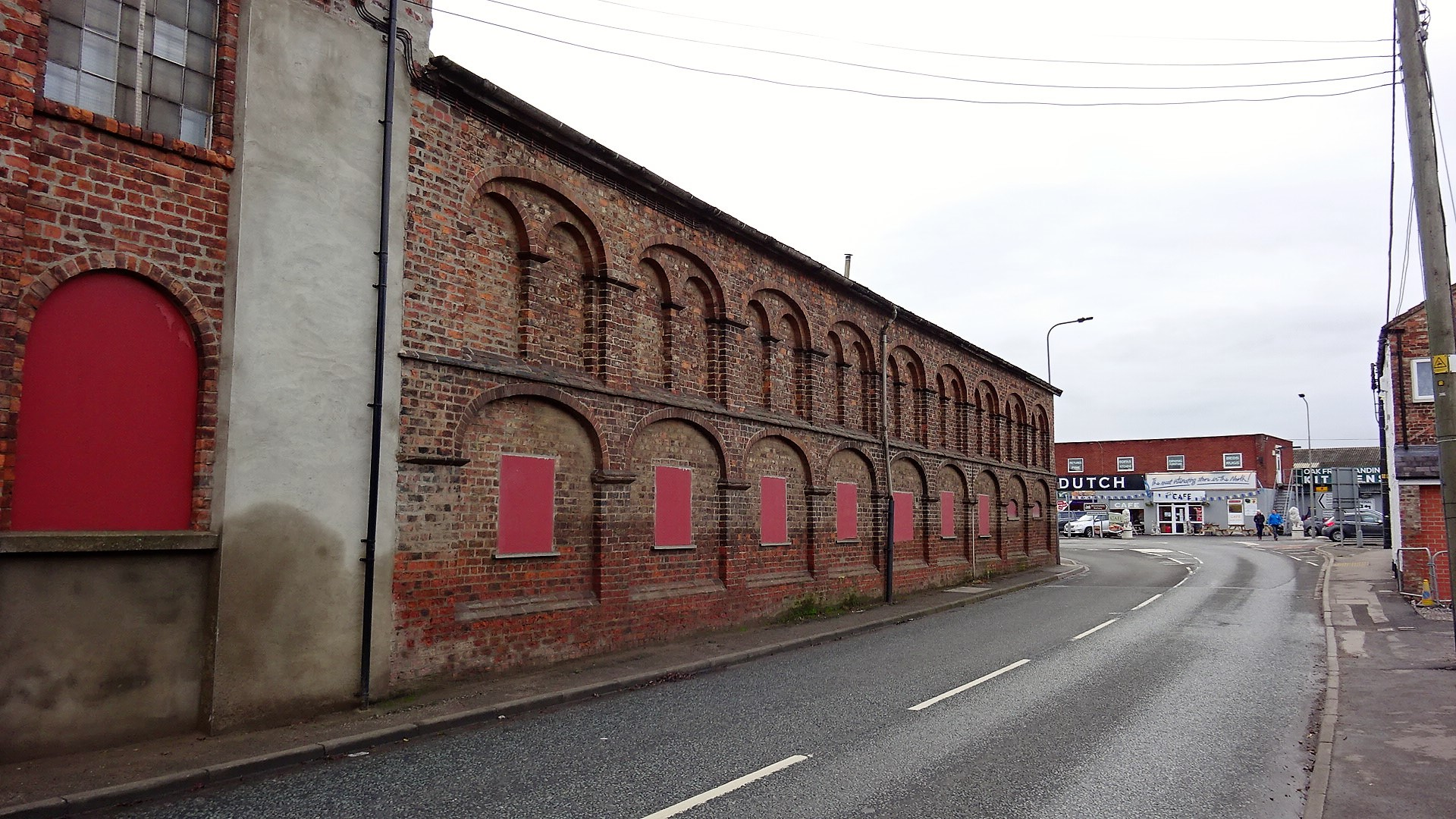 Leeming Bar and old factory's brickwork, Hambleton, North Yorkshire, England.